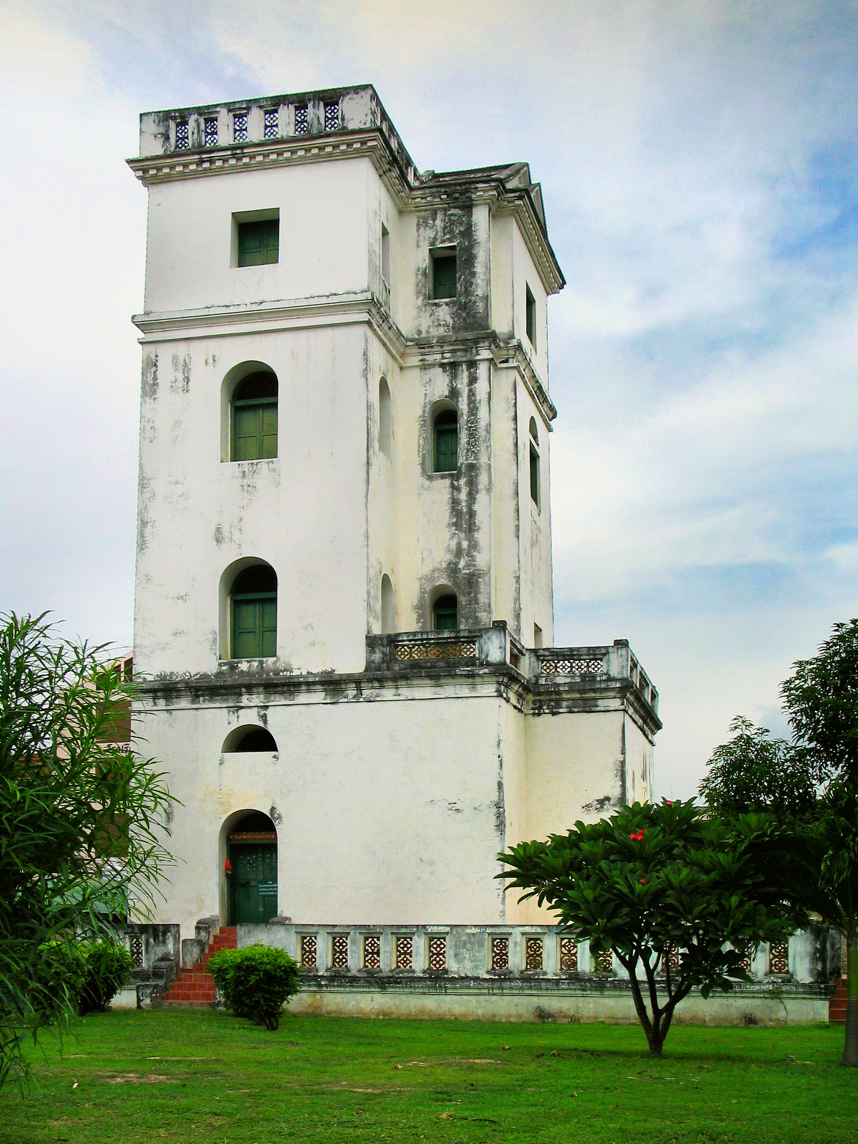 Pisai Sayalak Tower within Chandra Kasem Palace ("Front Palace"), Ayutthaya Historical Park, Thailand